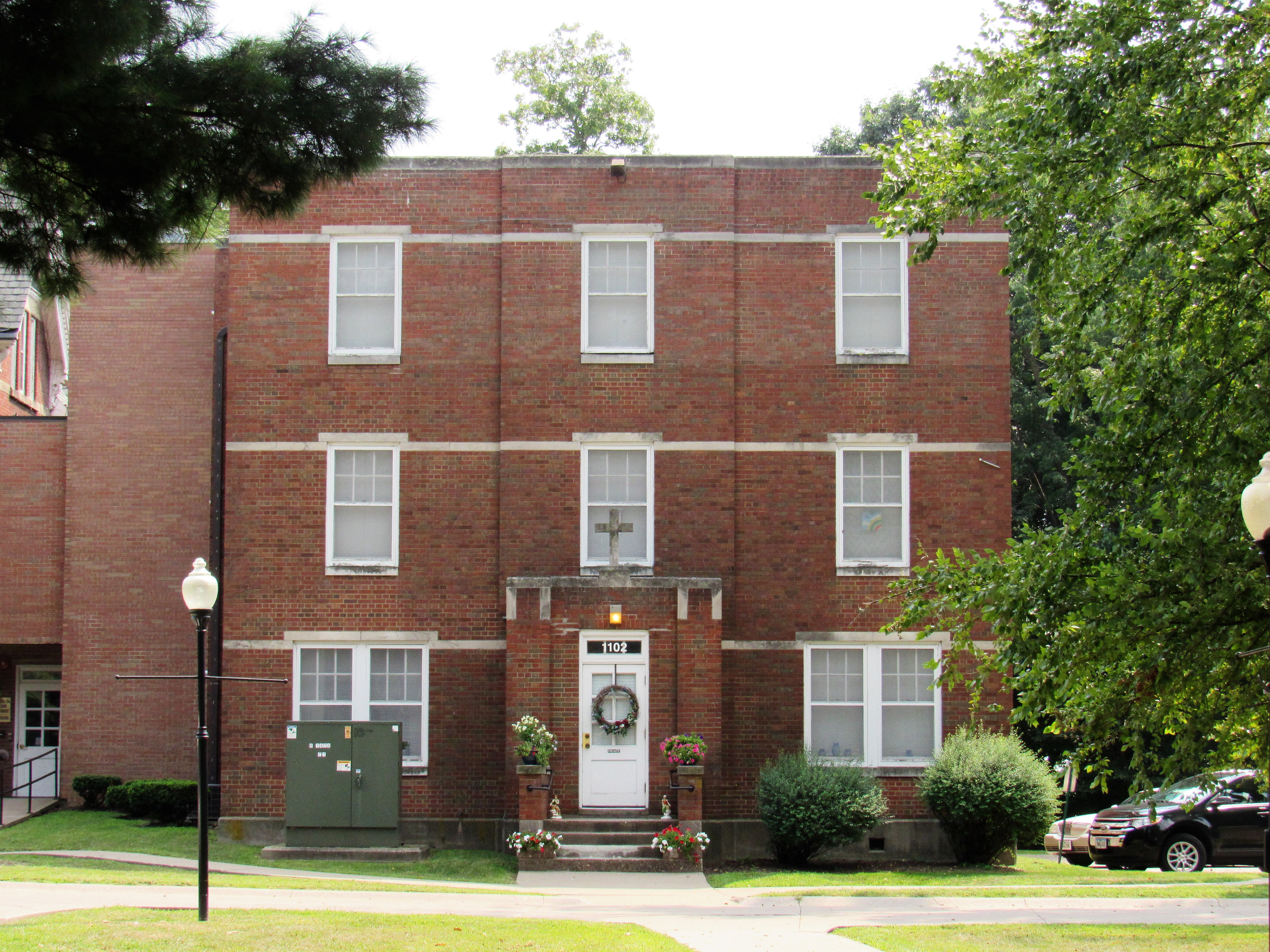 West Hall on the campus of the former Marycrest College in Davenport, Iowa. The campus forms a historic district on the National Register of Historic Places, and now houses apartments for senior citizens. The building was built in two stages: 1941 and 1958.